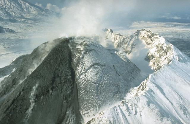 Dark lava flow descending the eastern flank of snow-mantled summit lava dome of Bezymianny volcano in Kamchatka in September 1990.